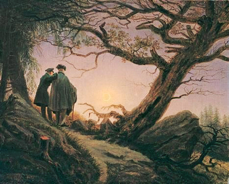 Two men contemplating the Moonlabel QS:Len,"Two men contemplating the Moon" label QS:Lde,"Zwei Männer in Betrachtung des Mondes"